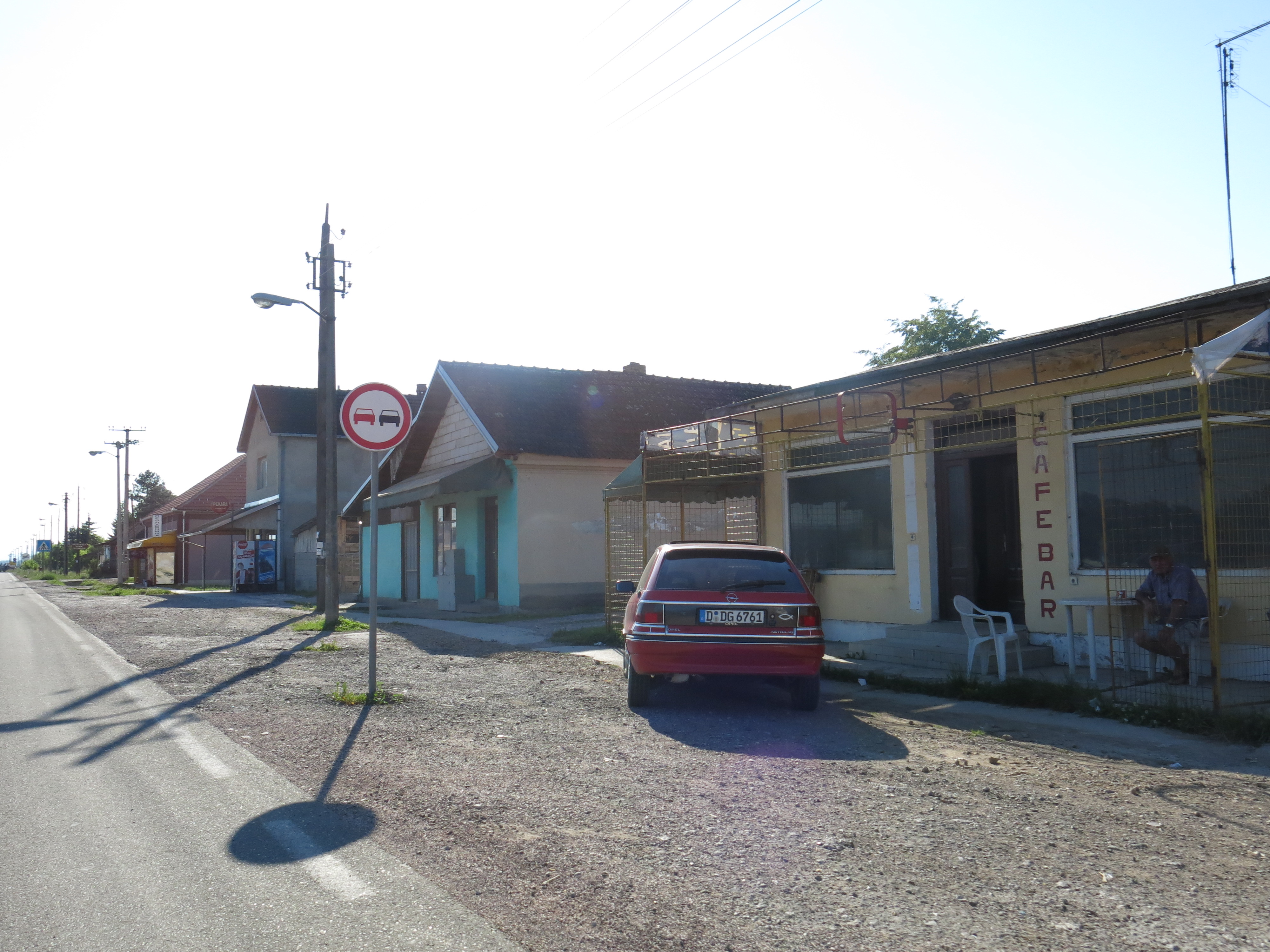 Divci, Street